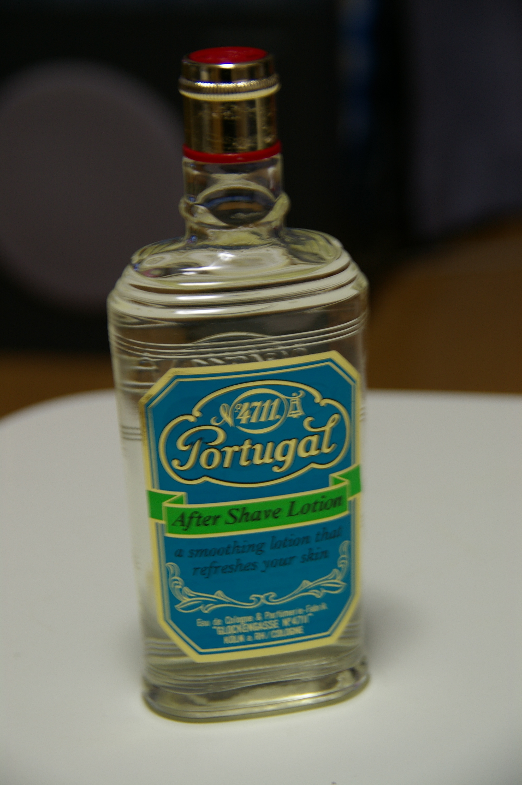 After Shave Lotion